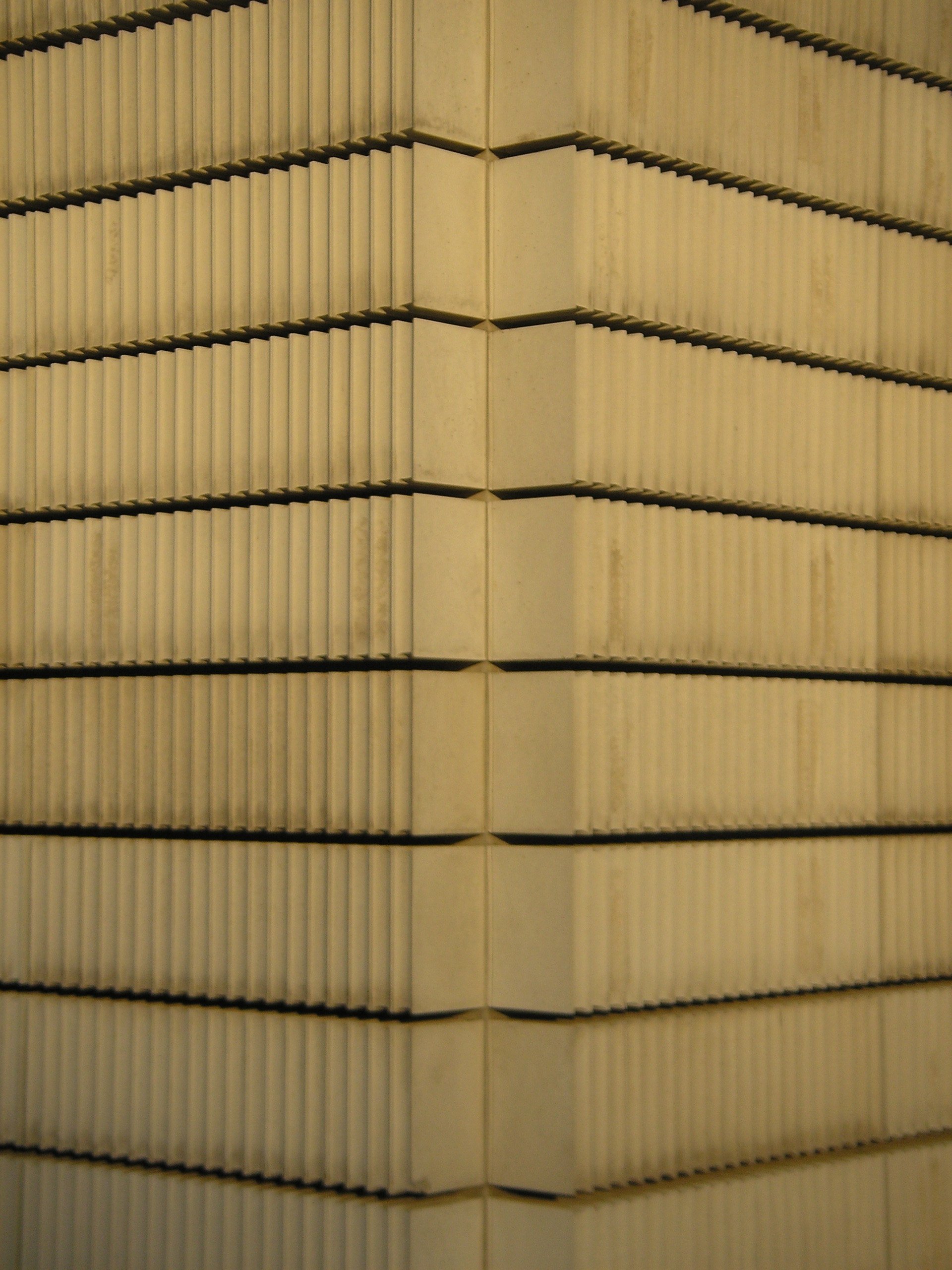 Detailed image of the Holocaust monument in Vienna, constructed by Rachel Whiteread.